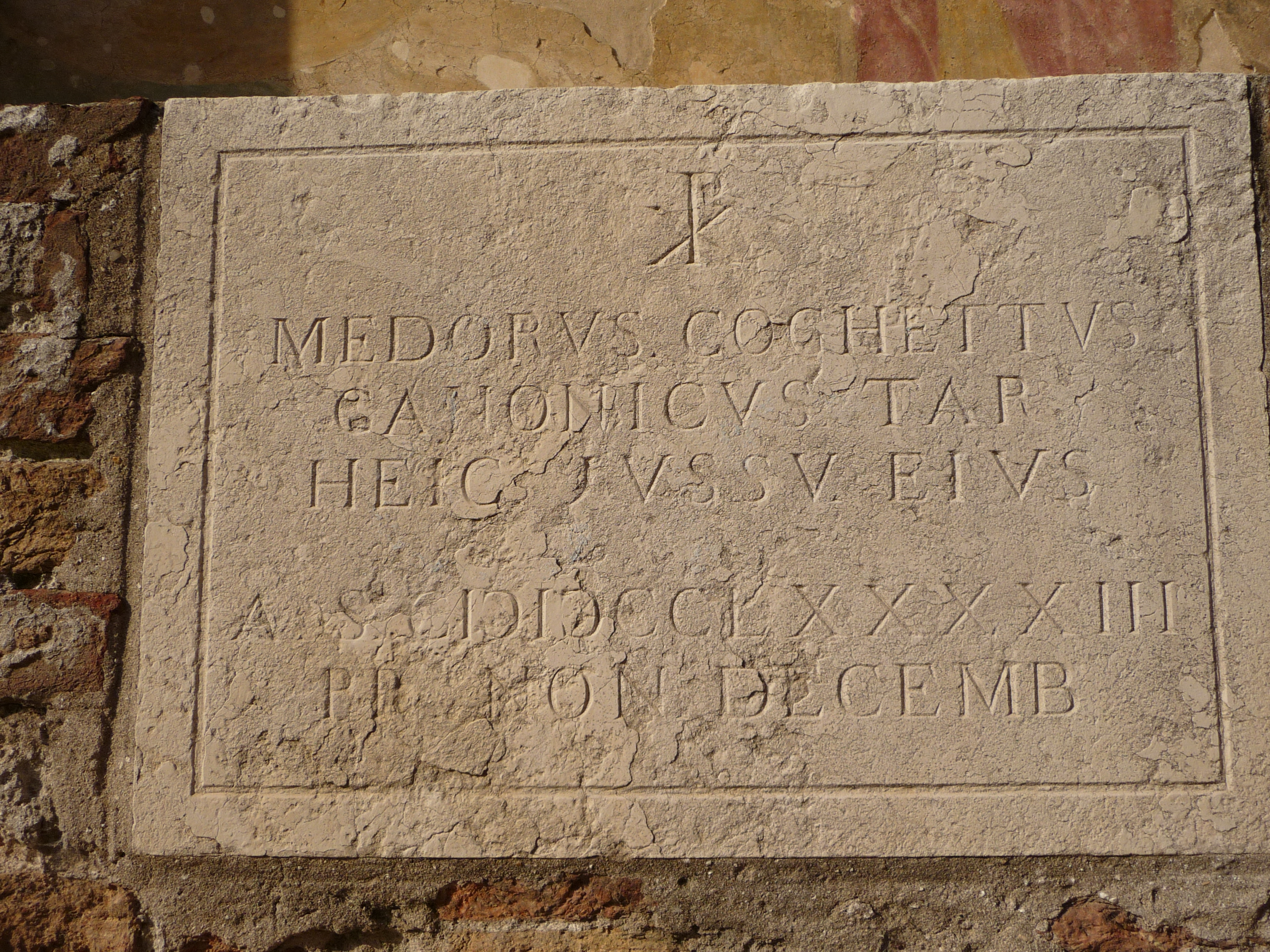 inscription about Medoro Coghetto on the external wall of the chiesa di San Giovanni Battista, Treviso (IT)